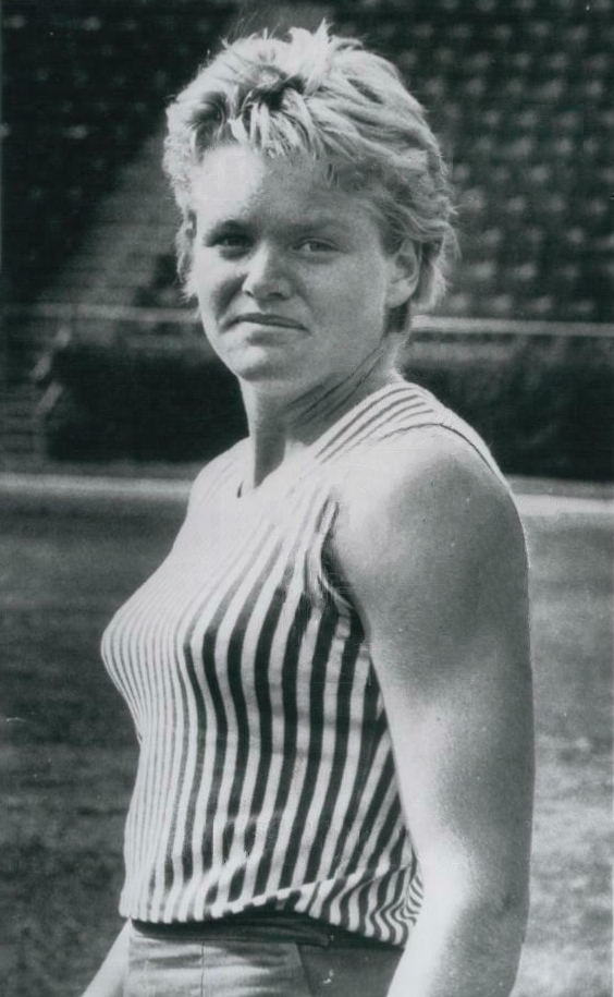 1964 Press Photo Mrs Pat Winslow Won 4 of 5 Events at Womens Track & Field Trial